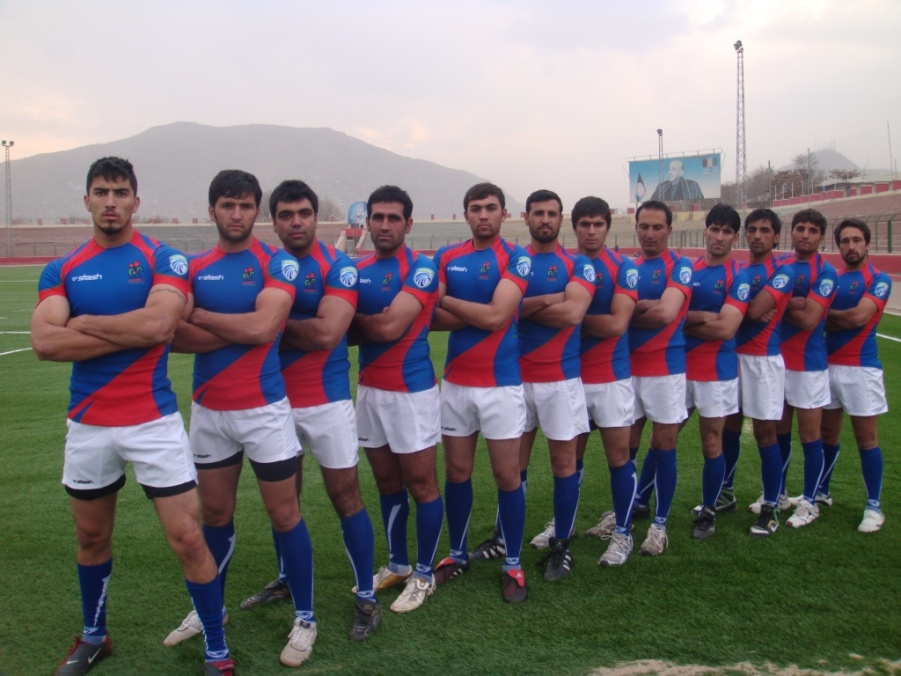 Afghan Rugby Squad